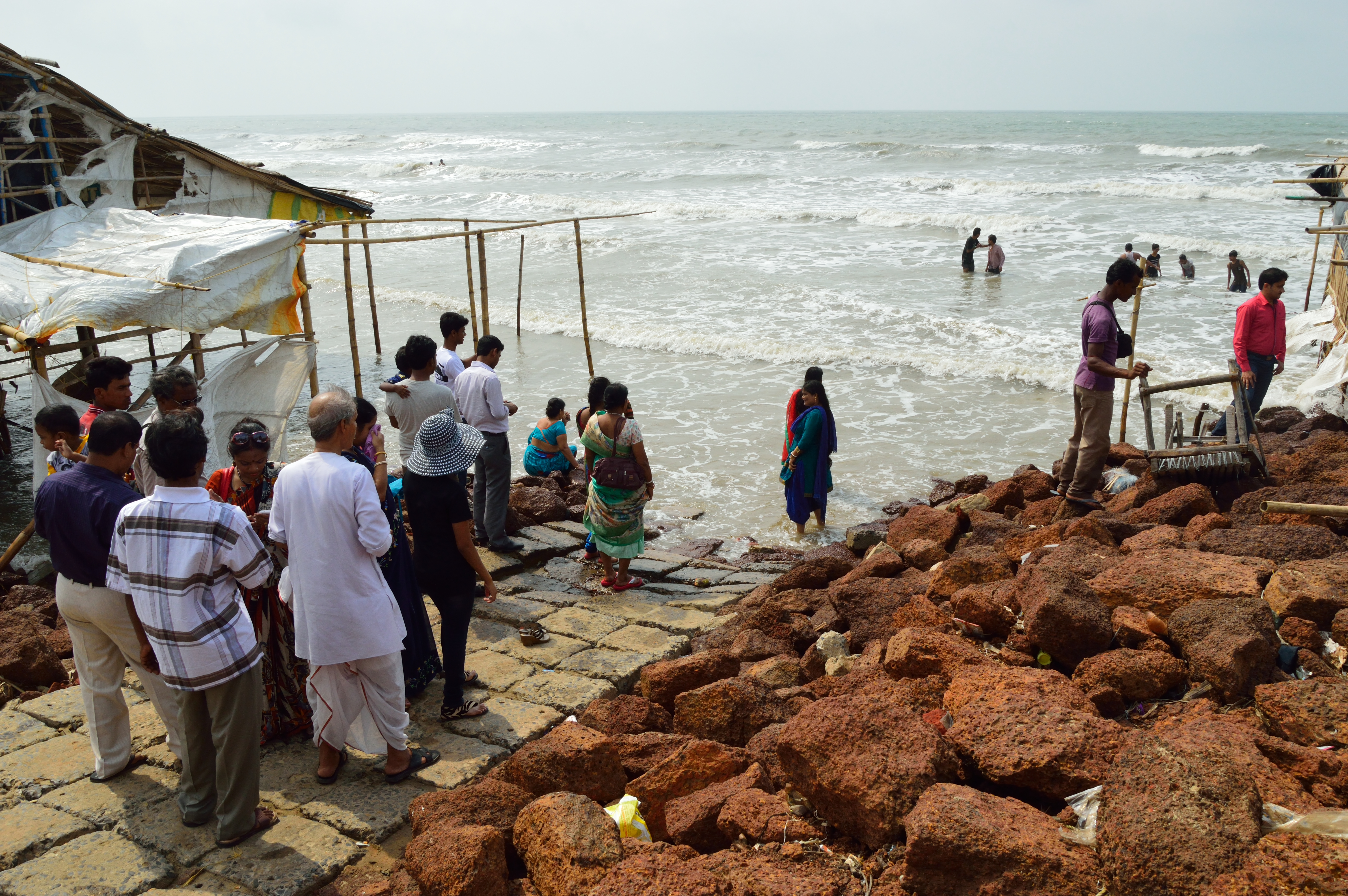 Photographed in West Bengal. Personality rights warningAlthough this work is freely licensed or in the public domain, the person(s) shown may have rights that legally restrict certain re-uses unless those depicted consent to such uses. In these cases, a model release or other evidence of consent could protect you from infringement claims.